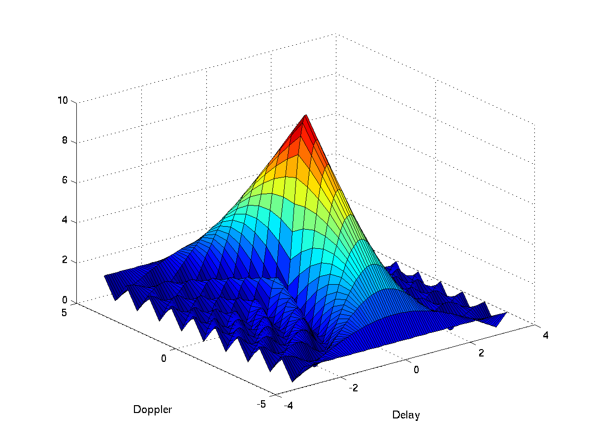 Ambiguity function for a square pulse